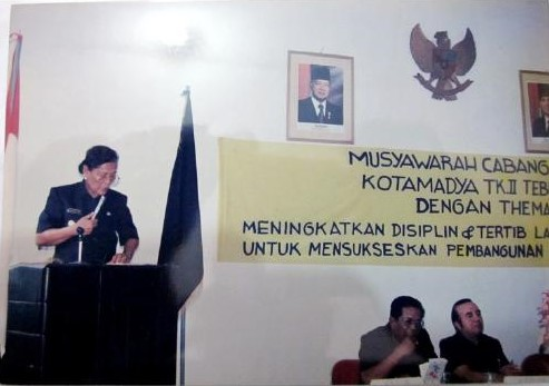 Rohani Darus Danil giving speech in an event.